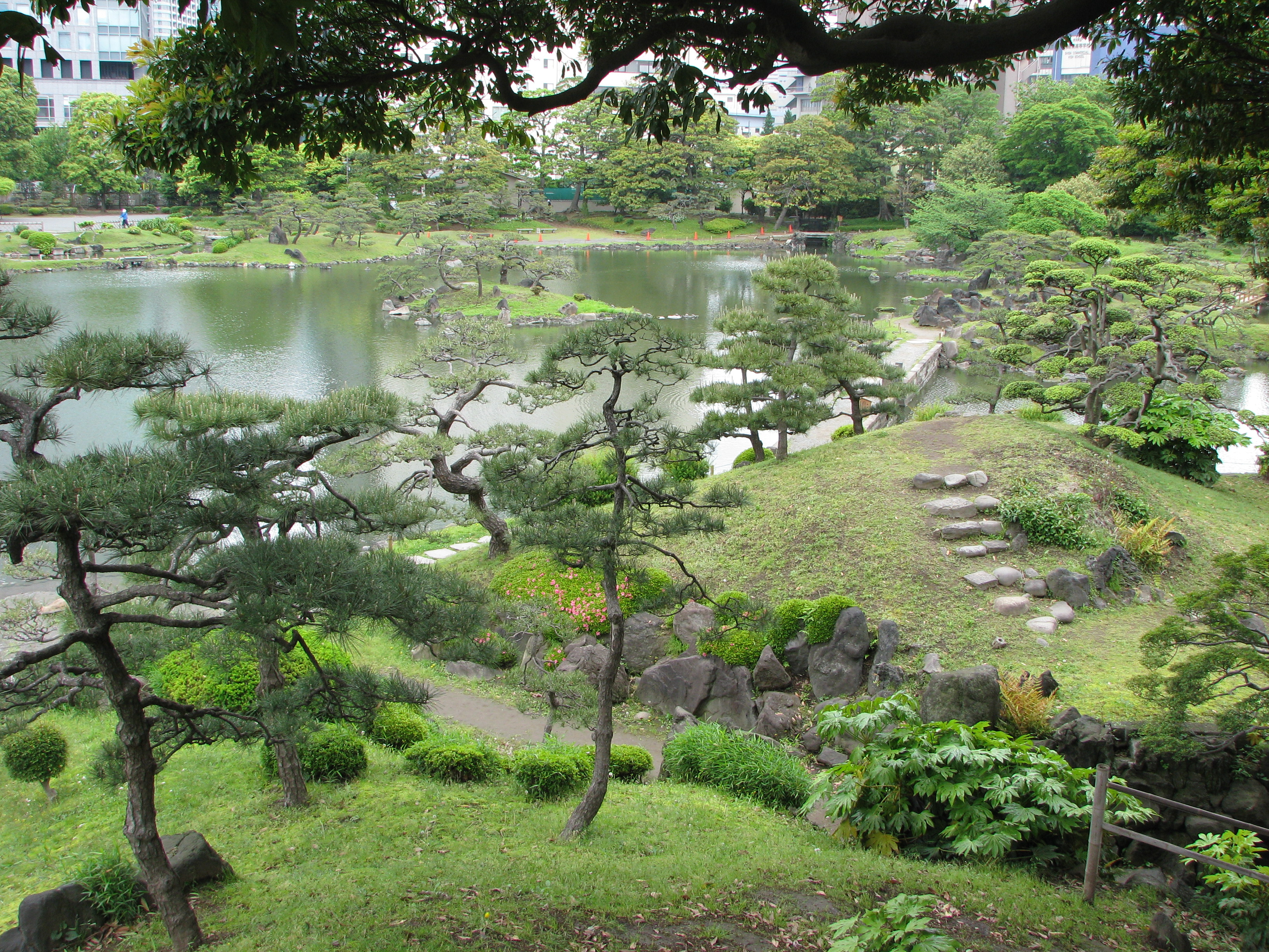 Kyu Shiba Rikyu Garden (Kyu Shiba Rikyu Onshi Teien) in Tokyo, Japan